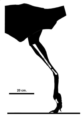 The known material of Kakuru kujani. Based on the holotype, SAM P17926, and the referred pedal phalanx, SAM P18010.